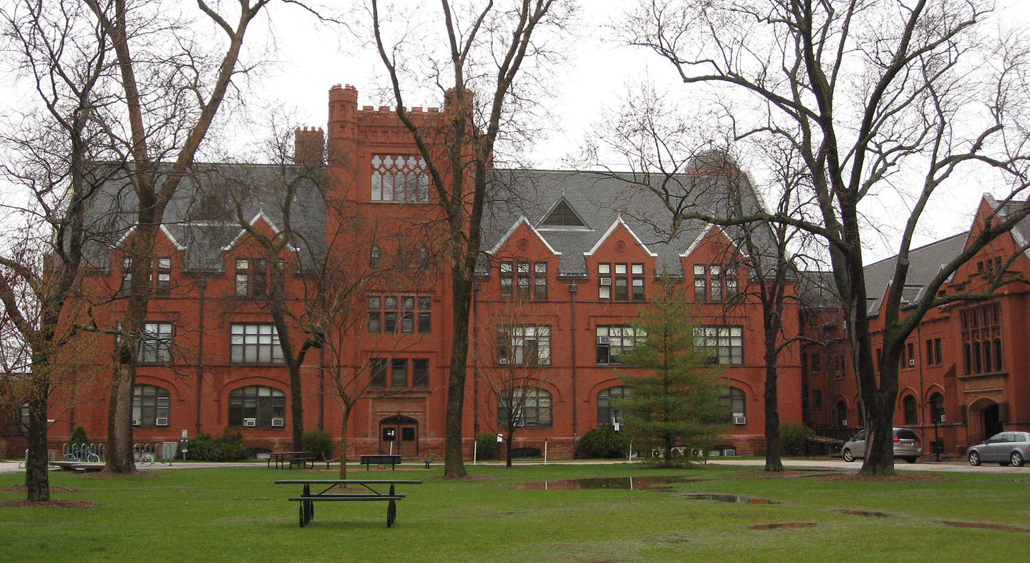 The Milwaukee-Downer "Quad" NRHP on the campus of UW-Milwaukee, at the corner of Hartford and Downer. This view is looking north at Merrill Hall (architect Howland Russel), with Johnston Hall (architect Alexander C. Eschweiler) to the right. Holton Hall is out of view to the left. Taken with a Canon PowerShot SD850 IS on April 25, 2009.